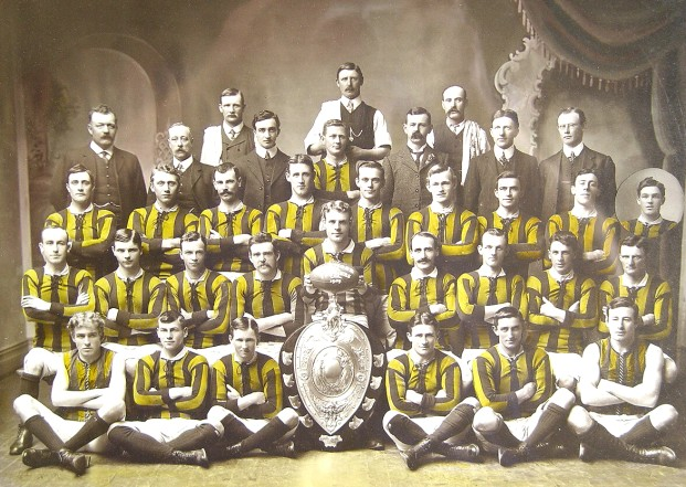 The Cananore F.C. team of 1909 that won the premiership.